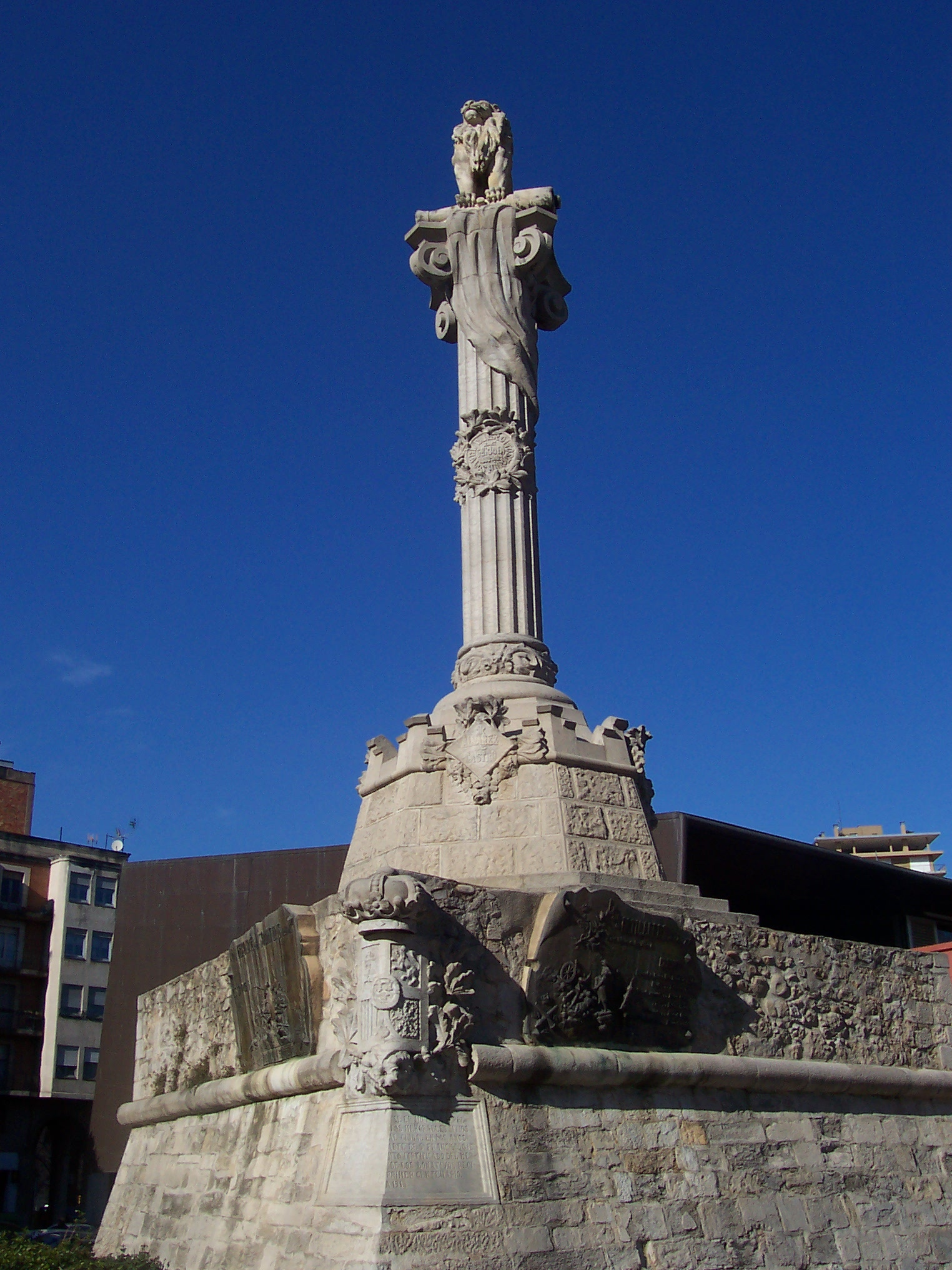 To Mariano Álvarez de Casto or The lion, Girona, Catalonia